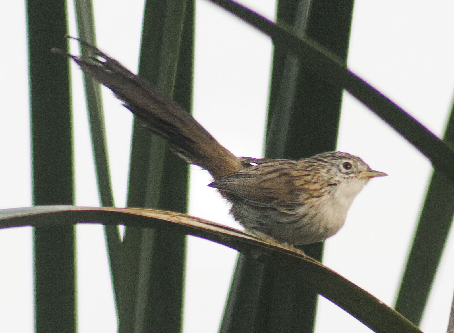 Rufous-vented Prinia Laticilla burnesii (Blyth, 1844) [syn. Prinia burnesii], Harike Wetland, Amritsar, Punjab, India.